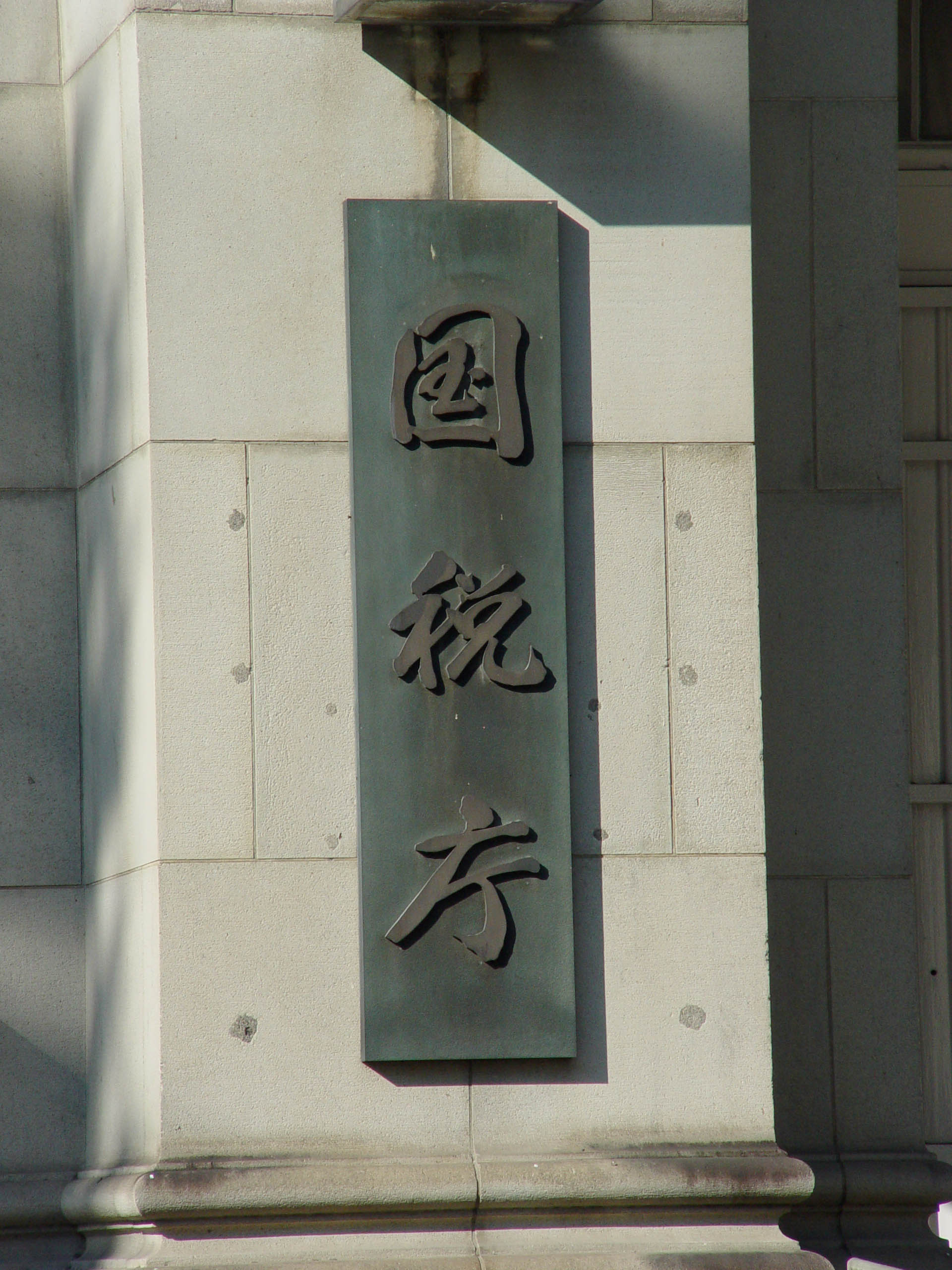 Public office building of National Tax Agency, Japan